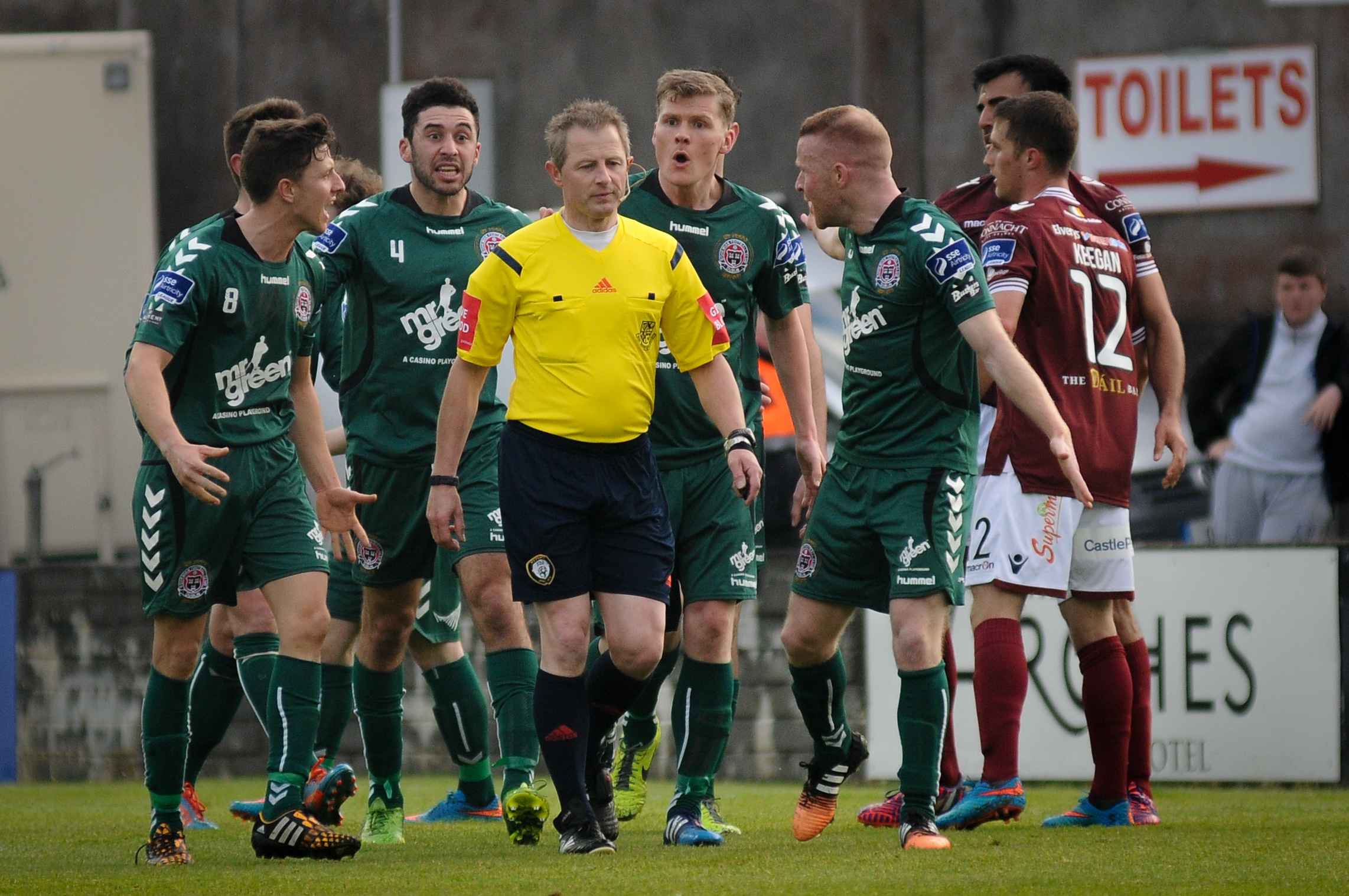 Referee Anthony Buttimer is surrounded by Bohemian's players during their 2015 League of Ireland game with Galway United at Eamon Deacy Park